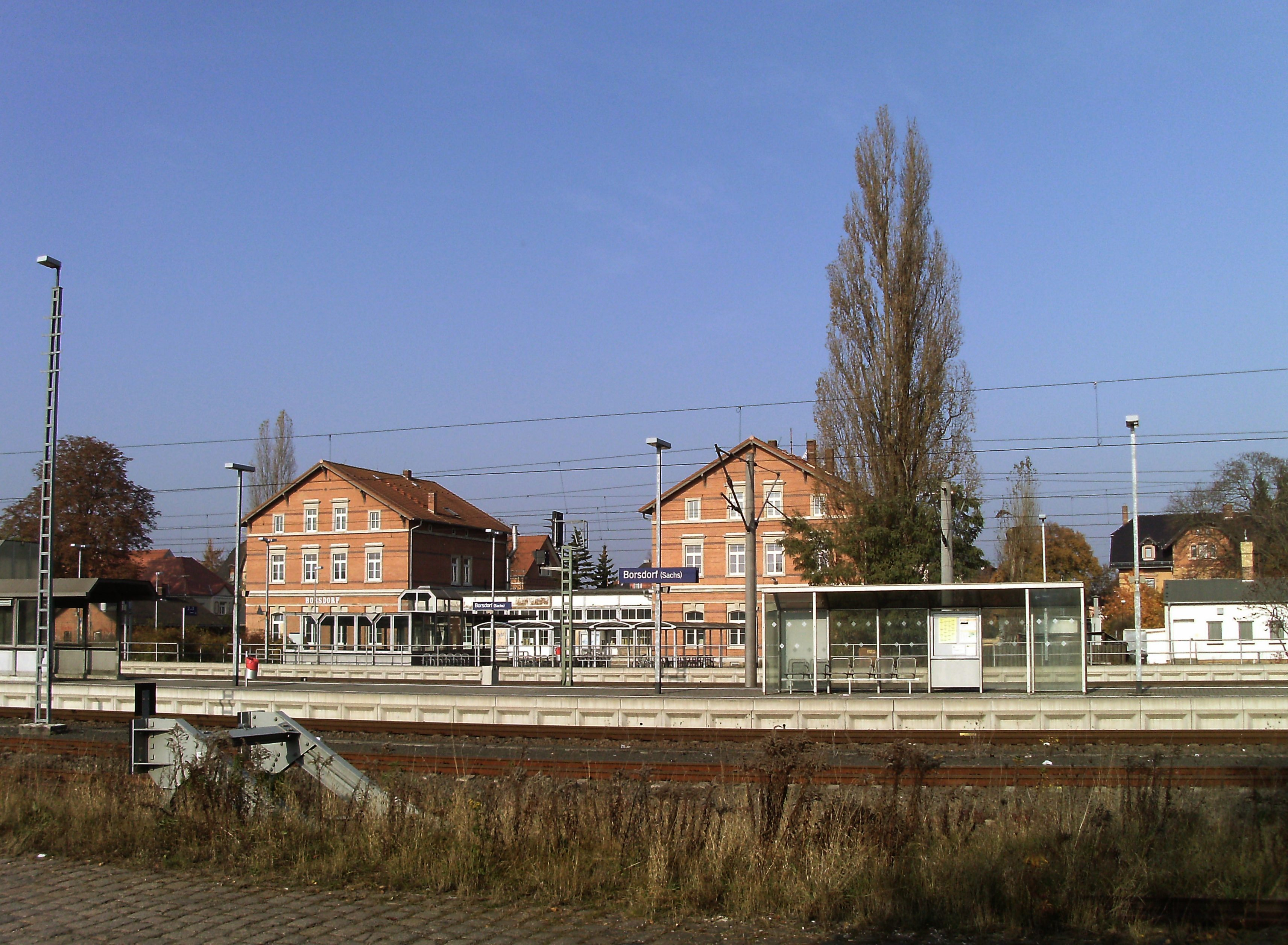 Borsdorf train station (Leipzig district, Saxony)